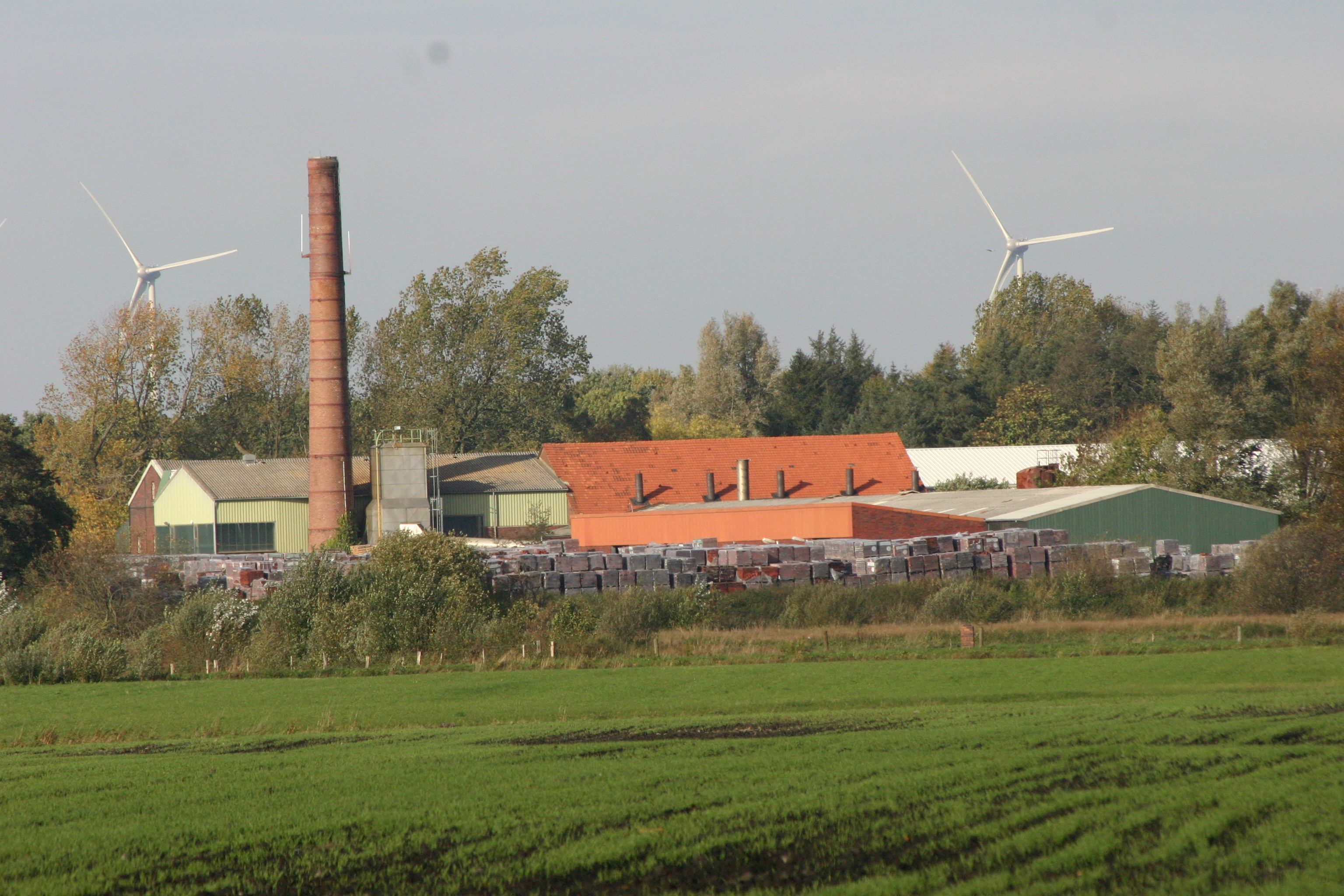 clinker brick-works in Neuschoo (district of Wittmund, East Frisia, Germany)